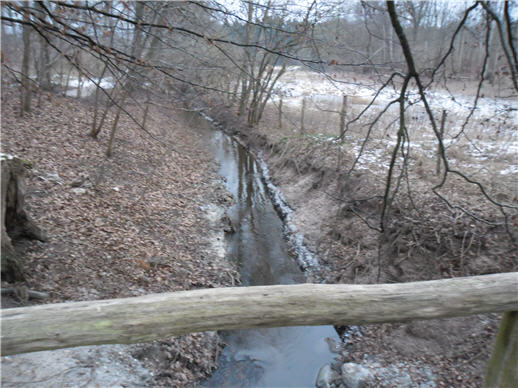 Small stream "Værebro Å" in Denmark just before it passes under the Gisselfeld bridge in Hareskoven.